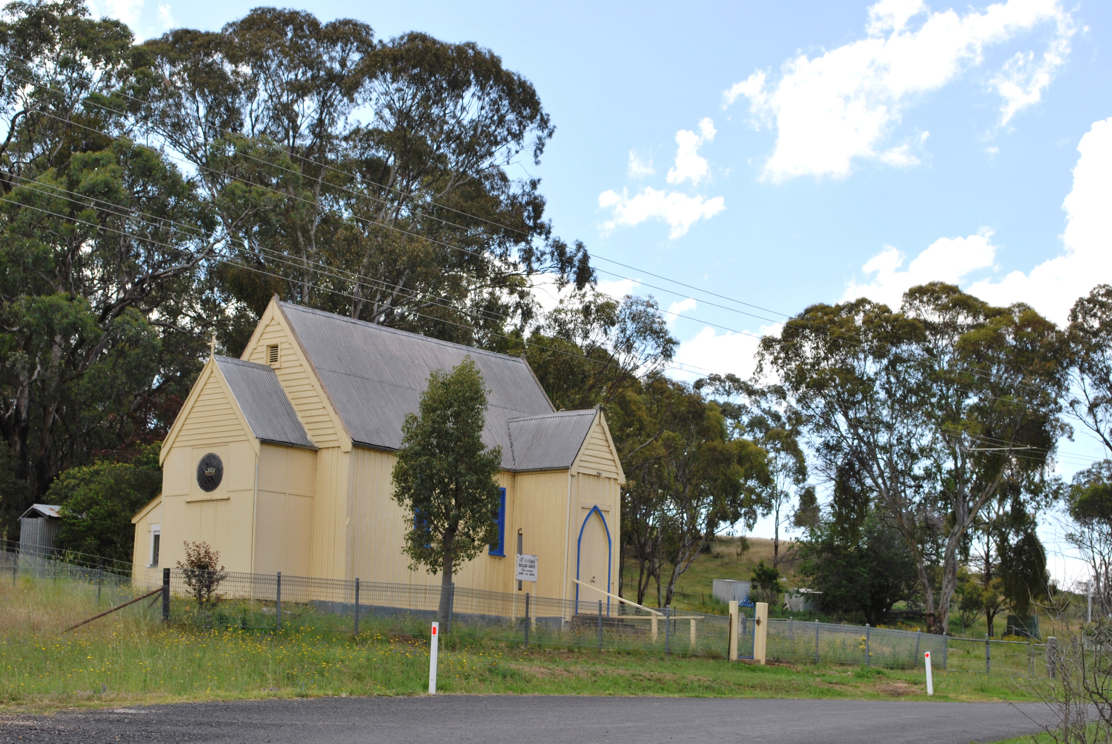 St Thomas' Anglican church at Euchareena, New South Wales. Note the perpendicular timber slabs